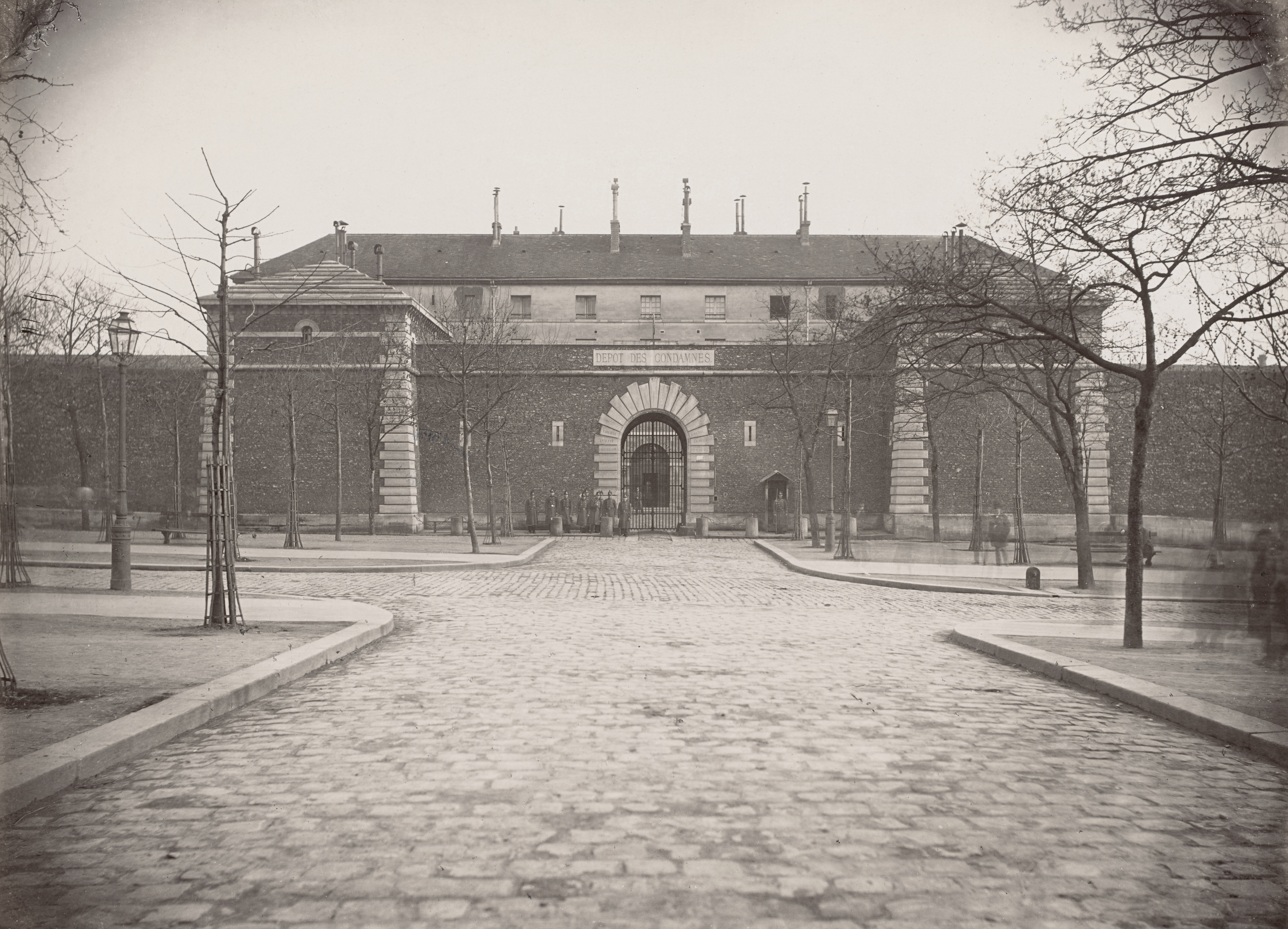 Depot des Condamnés: Vue Extérieure: Looking along road towards prison walls with arched entrance, row of police officers standing near gate, an office in a sentry box on right.